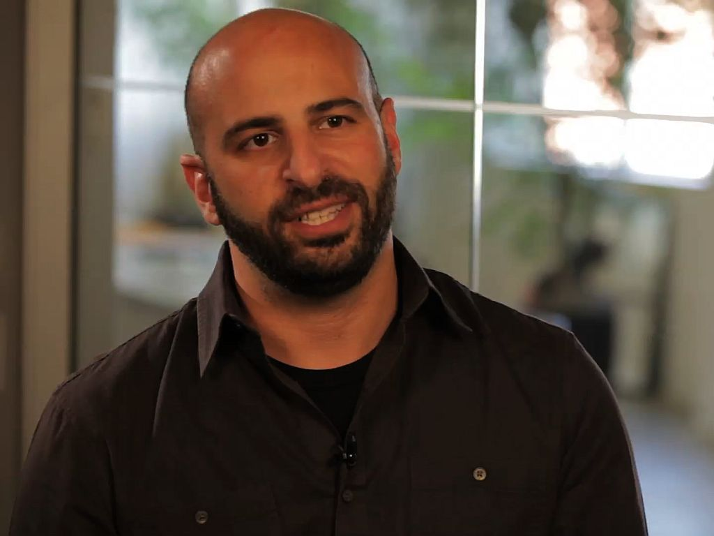 "To keep up with changes in technology or customers' needs, companies are pushing more decision making down to their employees. Employees need to have better information and better connections with coworkers and the company vision," said Adam Pisoni, co-founder and CTO of Yammer.